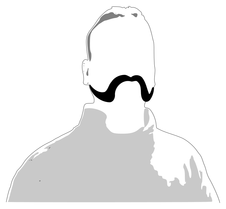 "Abhinandan moustache" : The style is a combination old gunslinger moustache and mutton chops styles. Becomes a rage a after the episodes post his ejection from the fighter plane into Pakistan administered Kashmir.